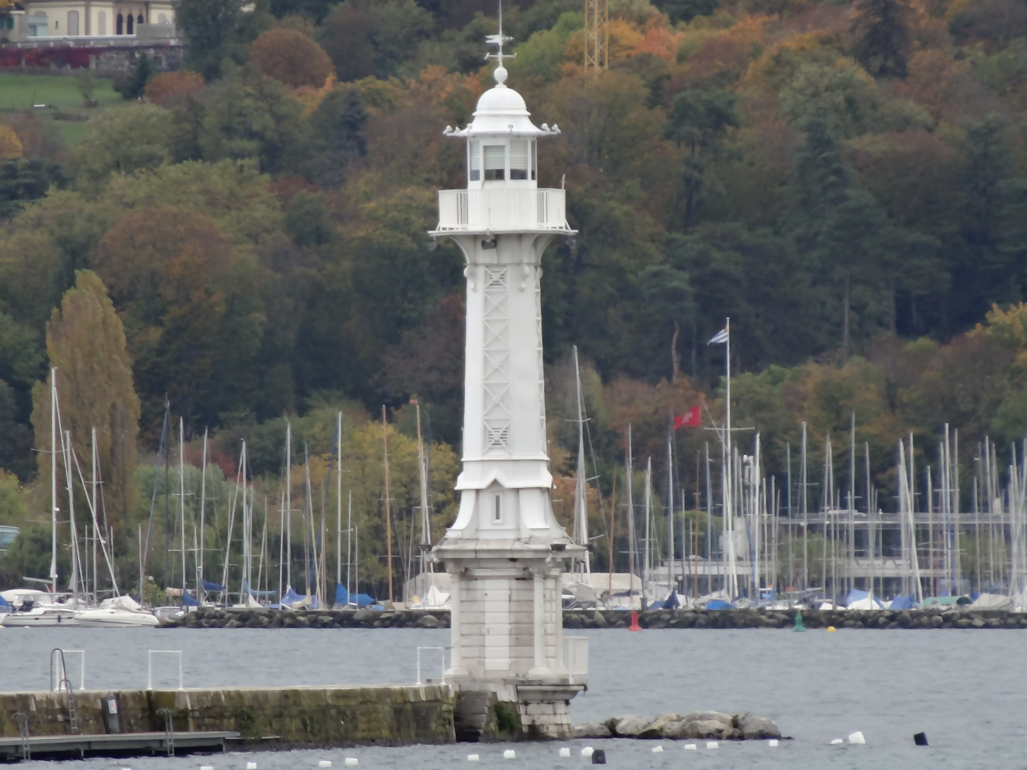 Geneva